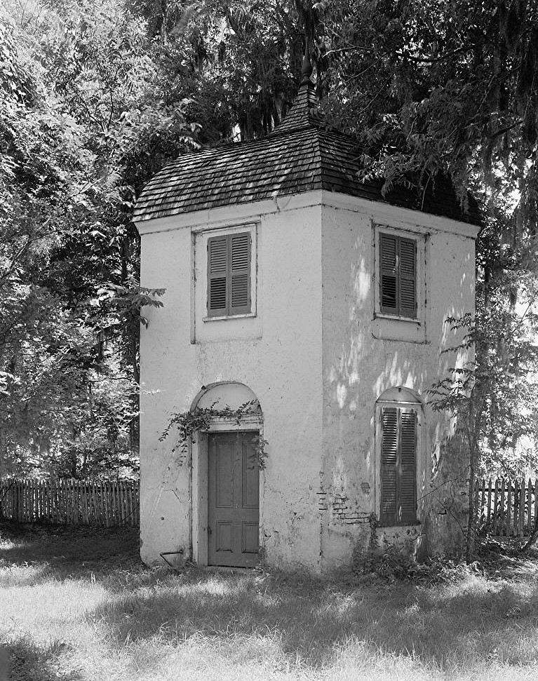 Burnside Plantation (Houmas House), Darrow vic., Ascension Parish, Louisiana . From the Library of Congress' Carnegie Survey of the Architecture of the South.